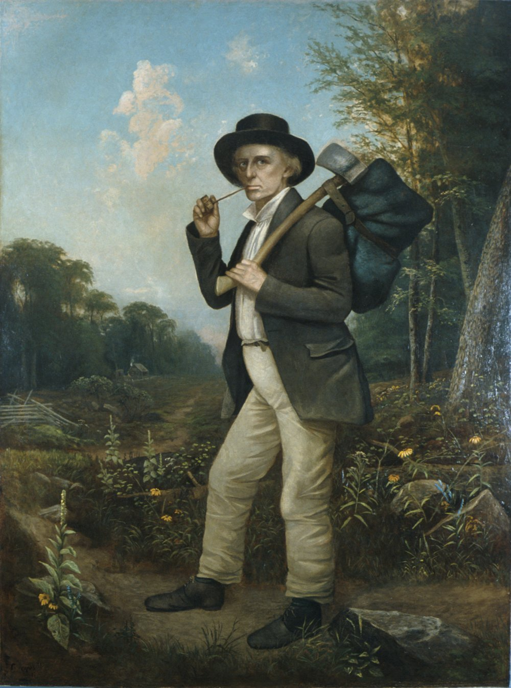 Portrait of Andrew Horatio Reeder by Cyrenius Hall, Kansas Historical Society. Note: According to a legend, Reeder disguised himself as a woodcutter to escape from pro-slavery ruffians.